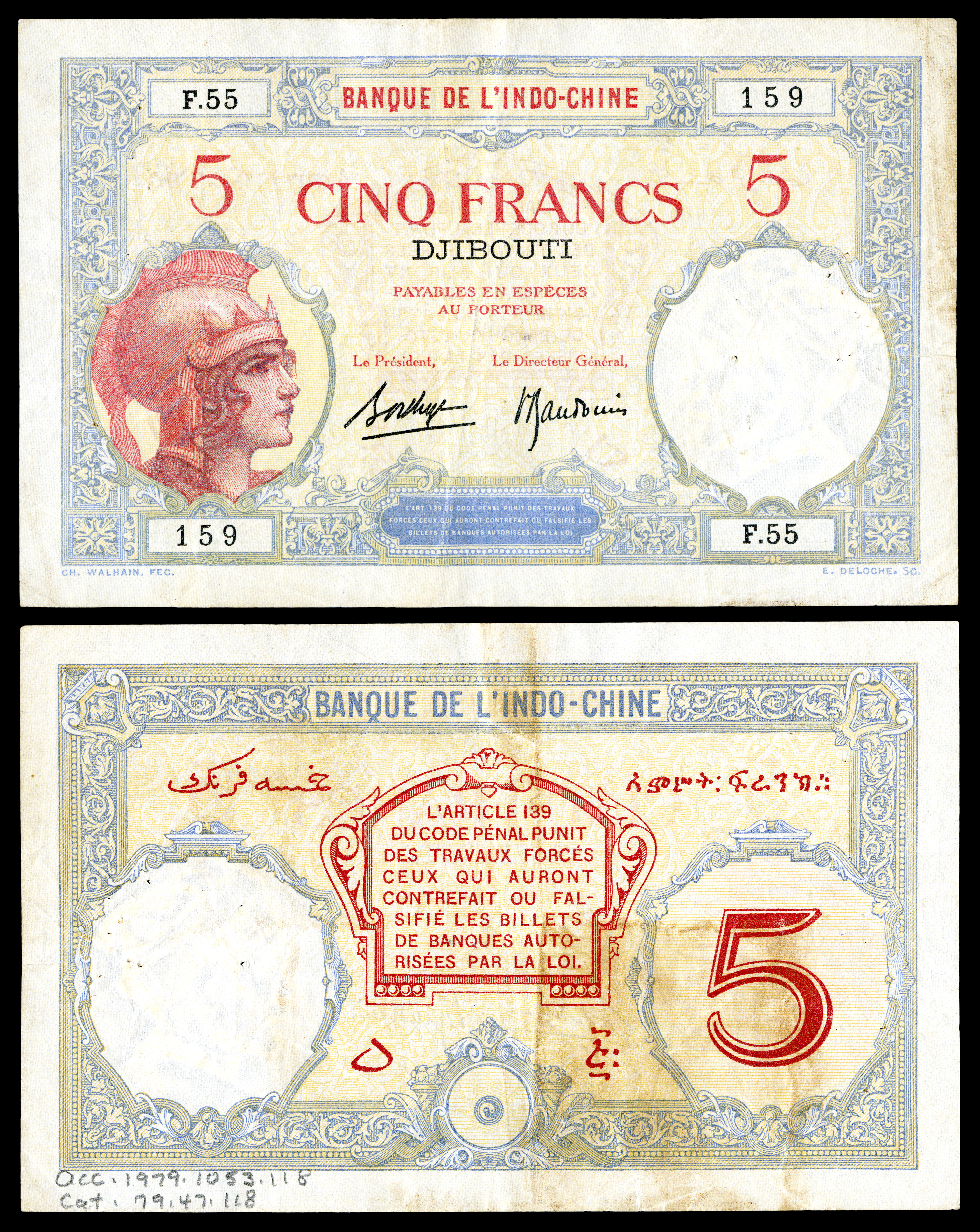 Djibouti, Banque de l'Indochine-5 Francs (1943)